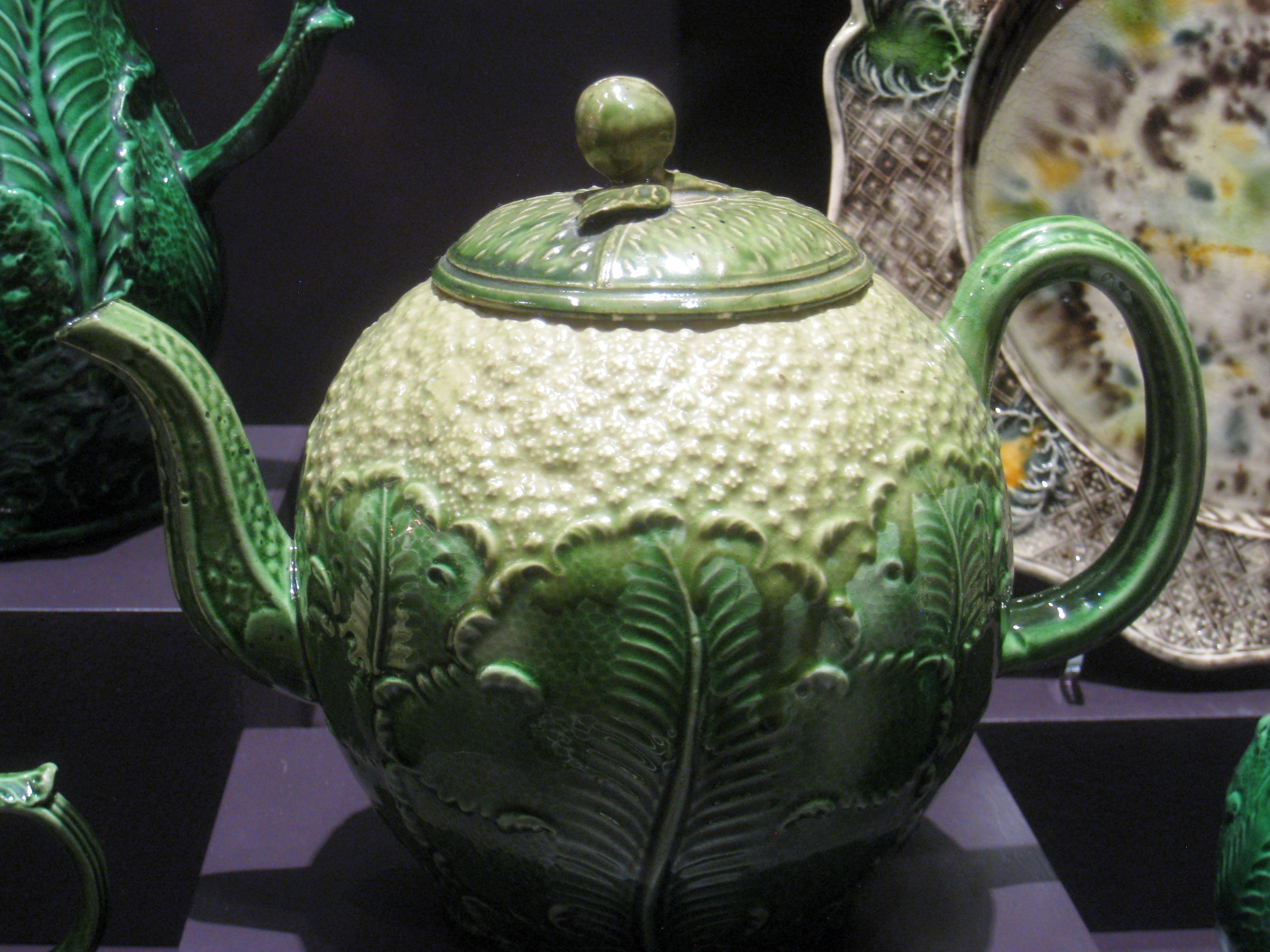 Tea pot, earthenware with lead glazes; Thomas Whieldon and Josiah Wedgwood, circa 1760. Pottery exhibited in the DAR Museum, National Society Daughters of the American Revolution, 1776 D Street NW, Washington, DC, USA.